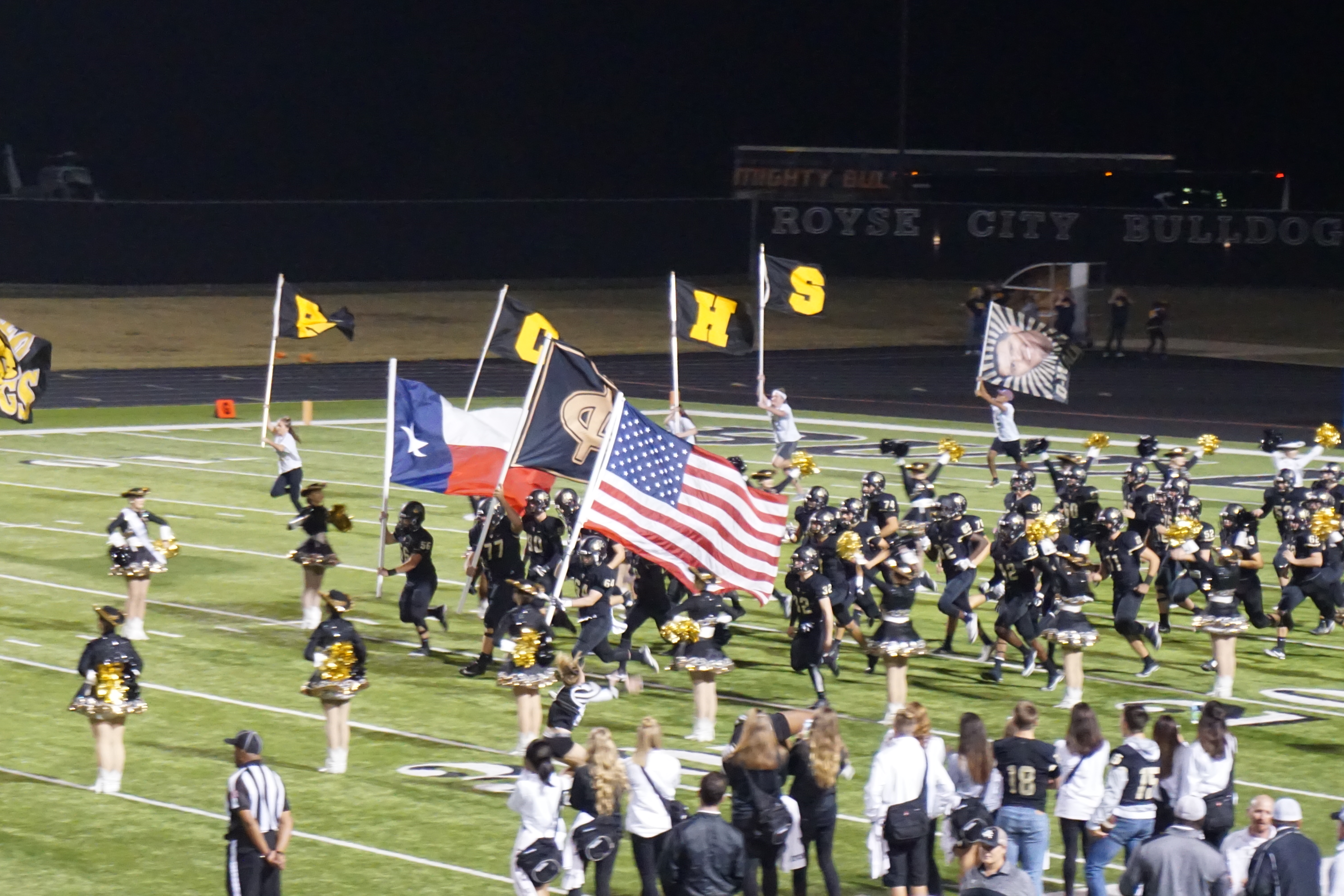 Royse City entering the field before the Highland Park Scots vs. Royse City Bulldogs high school football game in Royse City, Texas (United States). Highland Park won 45–15.